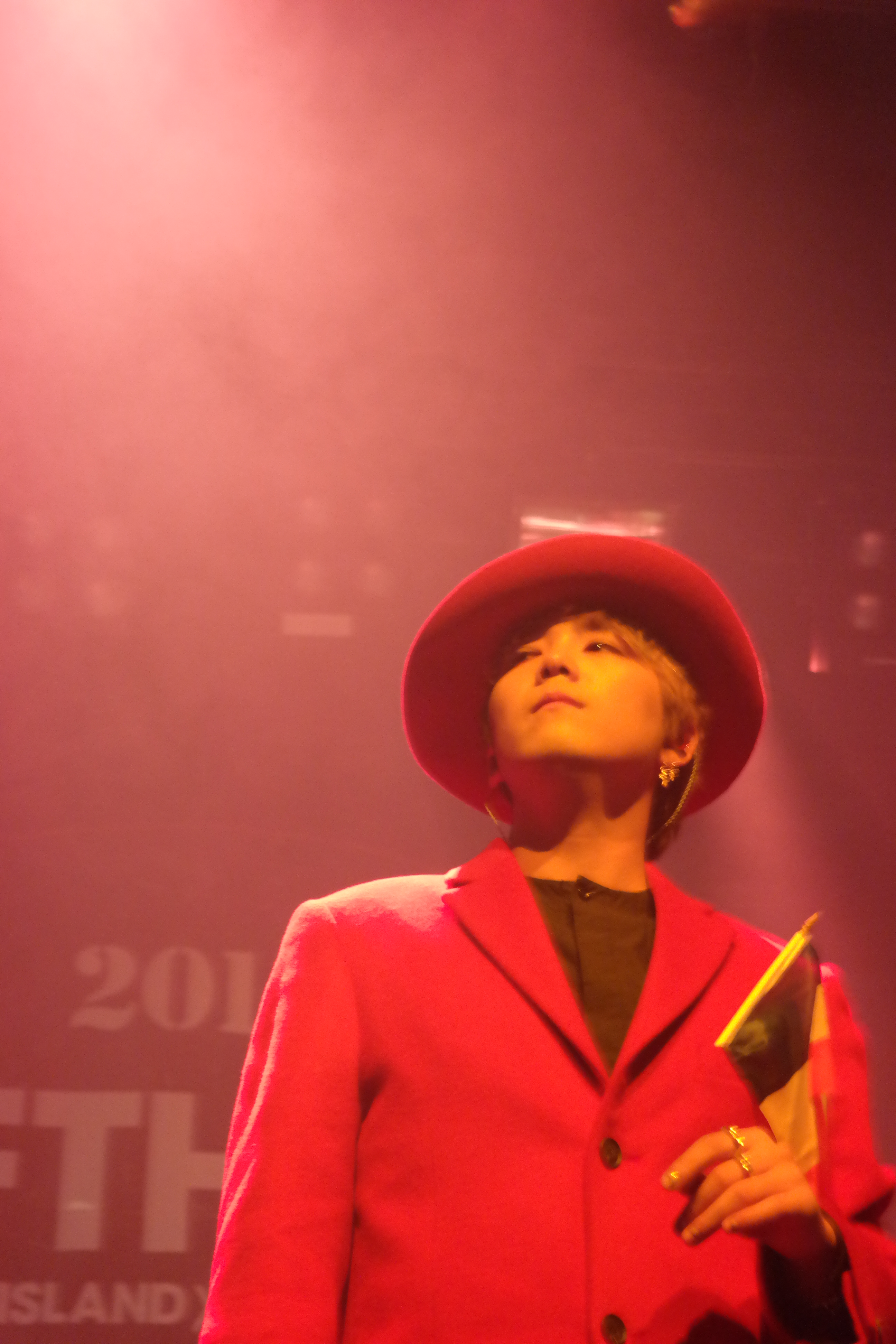 FTISLAND in Paris, La Cigale